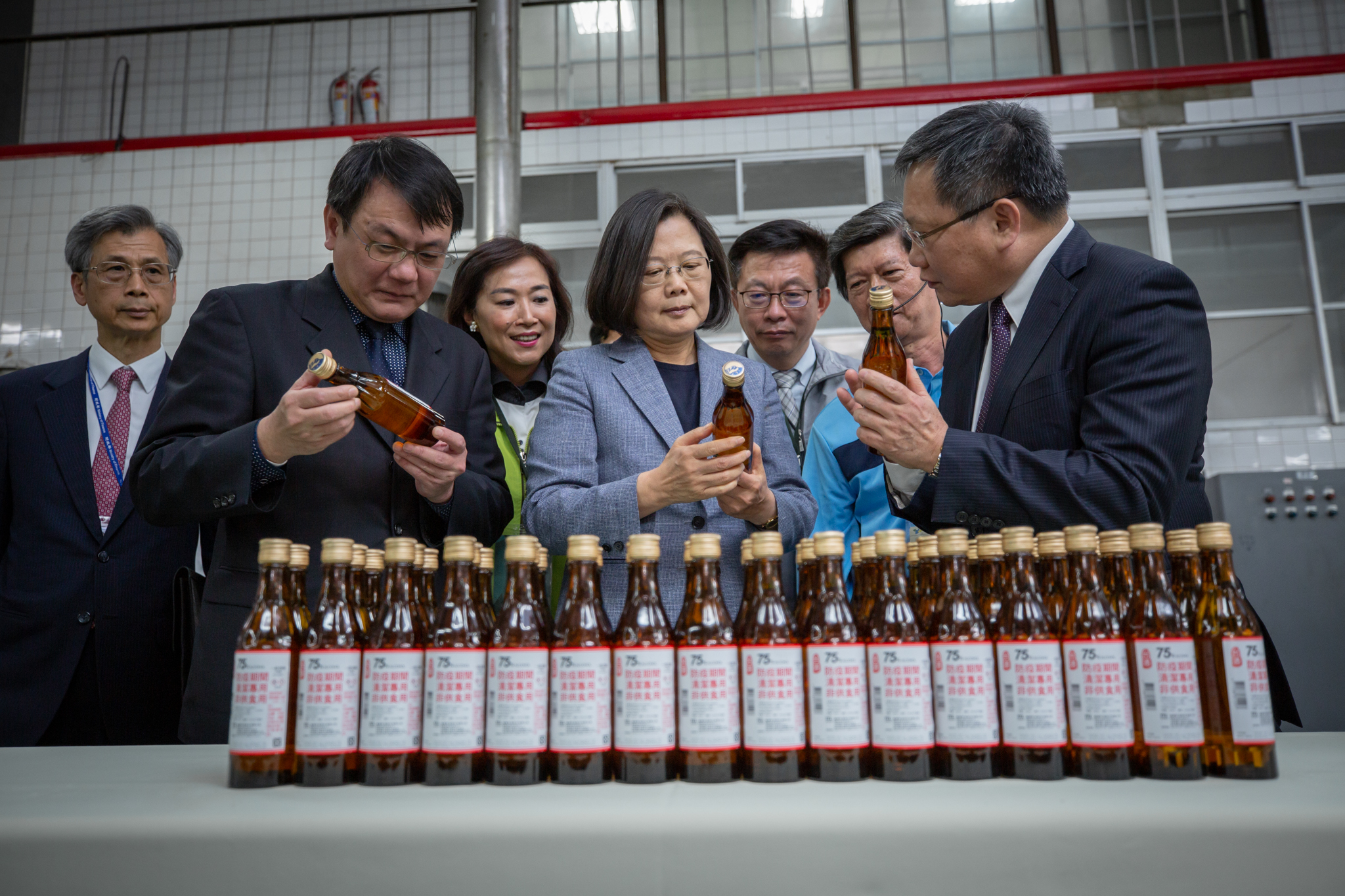 Official Photo by Mori / Office of the President